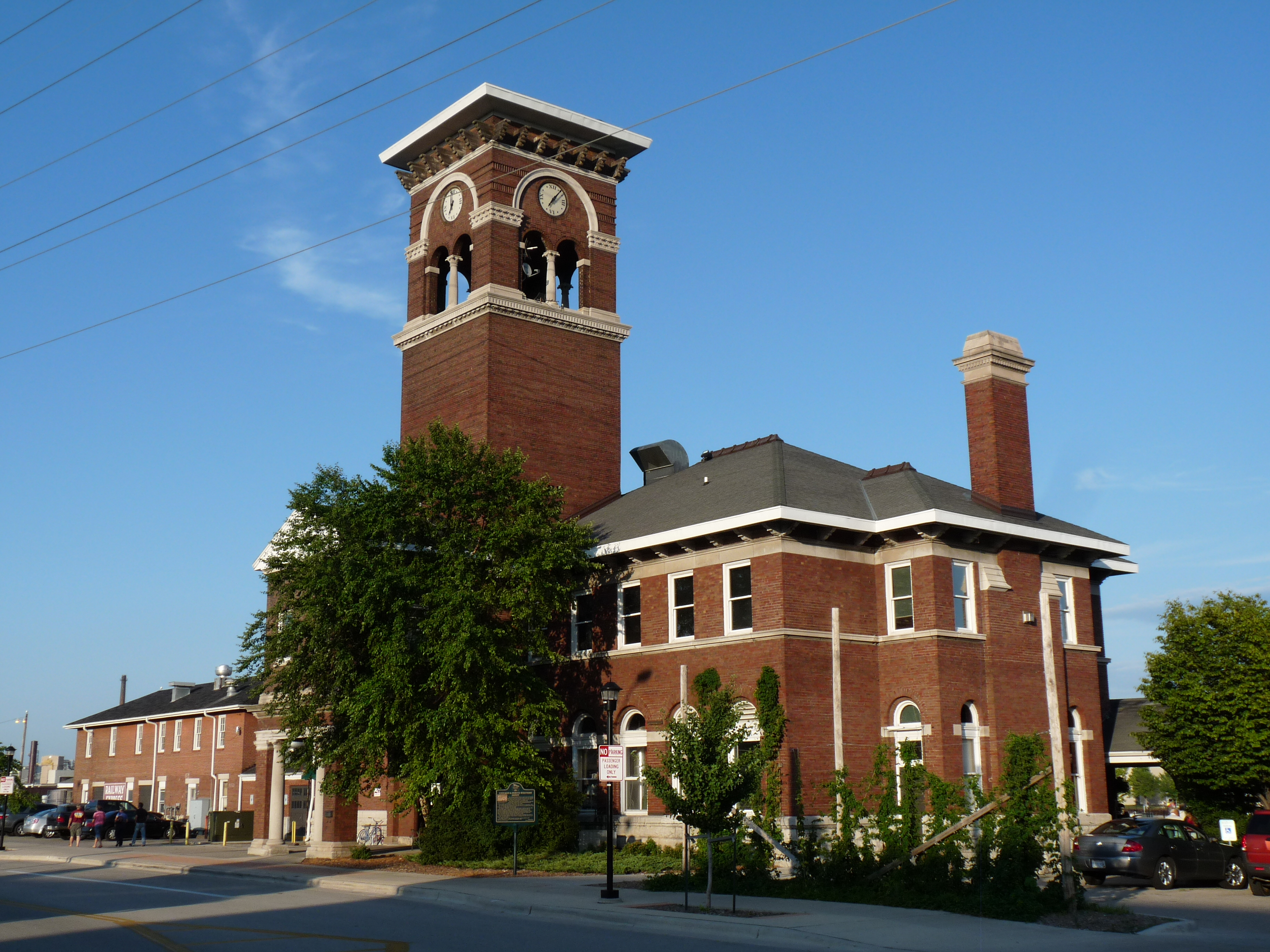 The Chicago and Northwestern Passenger Depot on the west side of Green Bay was built in 1898, in Italian Renaissance Revival style. It was listed on the National Register of Historic Places in 1999.